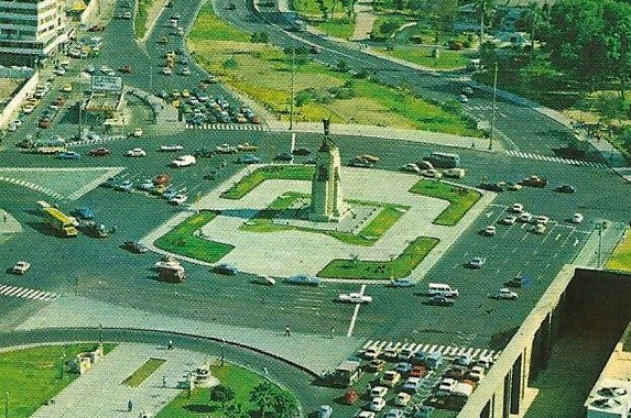 A postal card view of Grau Square and the Expressway. The statue is that of Admiral Miguel Grau, a Peruvian hero of the War of the Pacific against Chile.